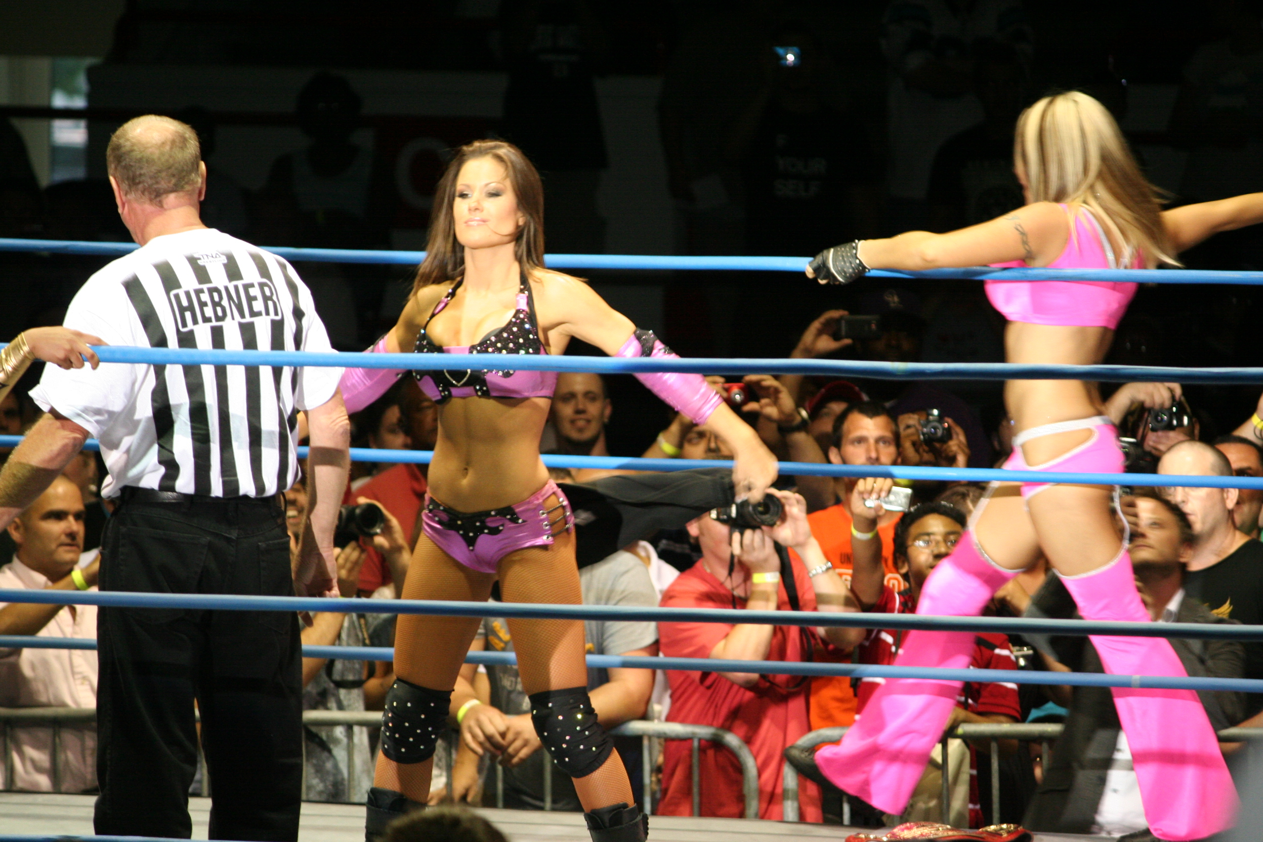 Ms Tessmacher (left) and Velvet Sky (right) prior to a match at a TNA house show in North Carolina, July 2011.